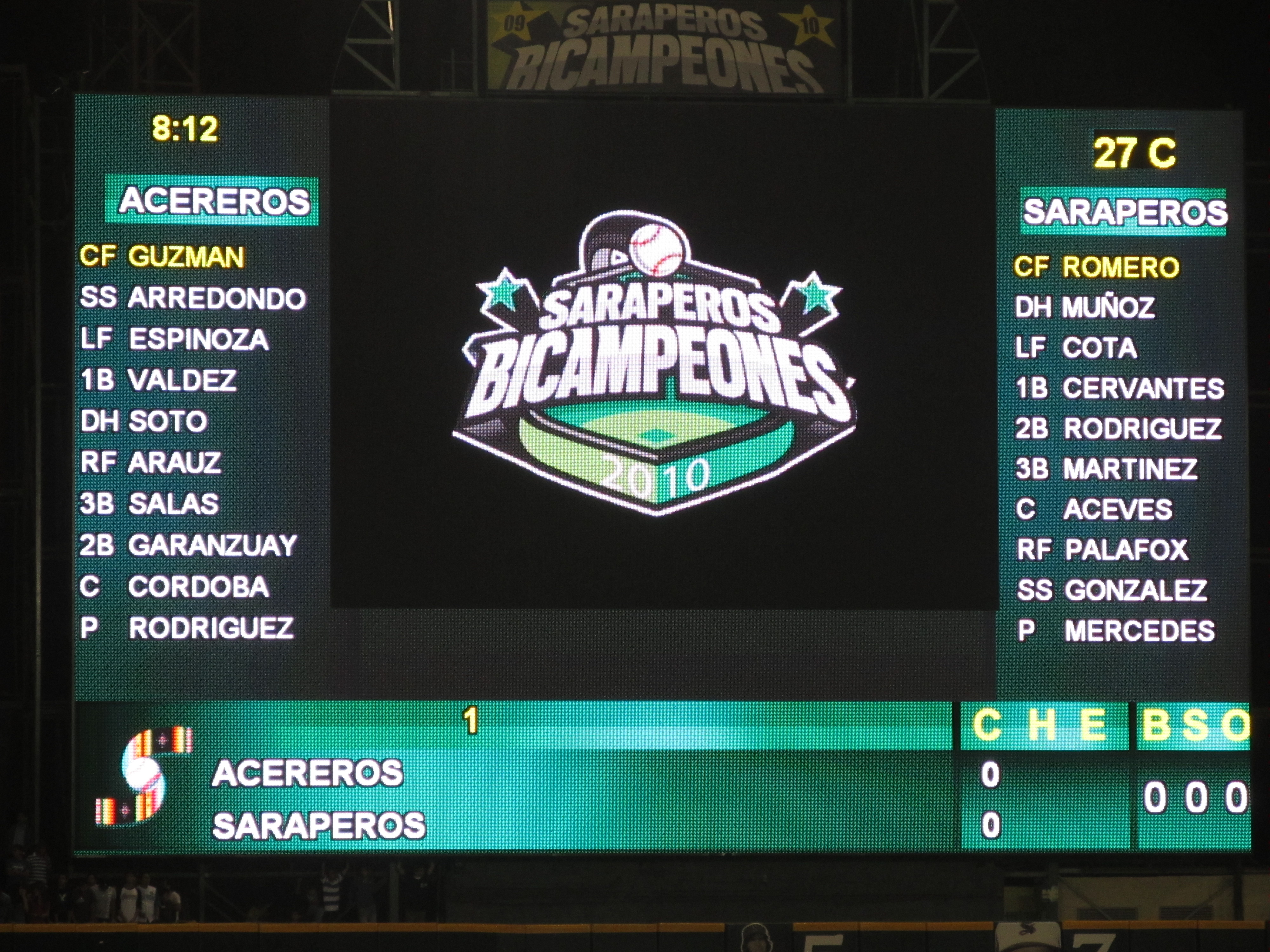 This is the new video display installed in the Saraperos De Saltillo stadium